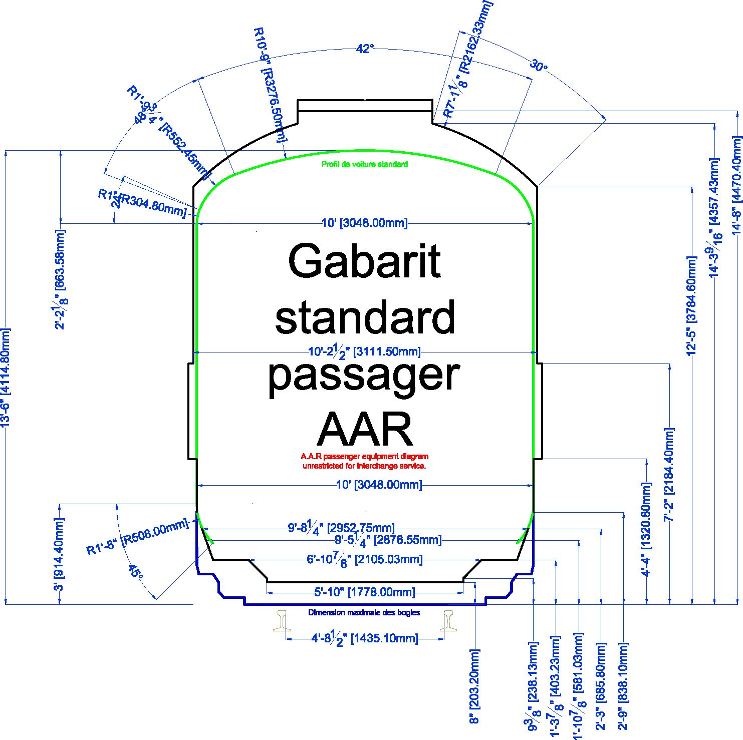 American Association of Railroads passenger car loading-gauge